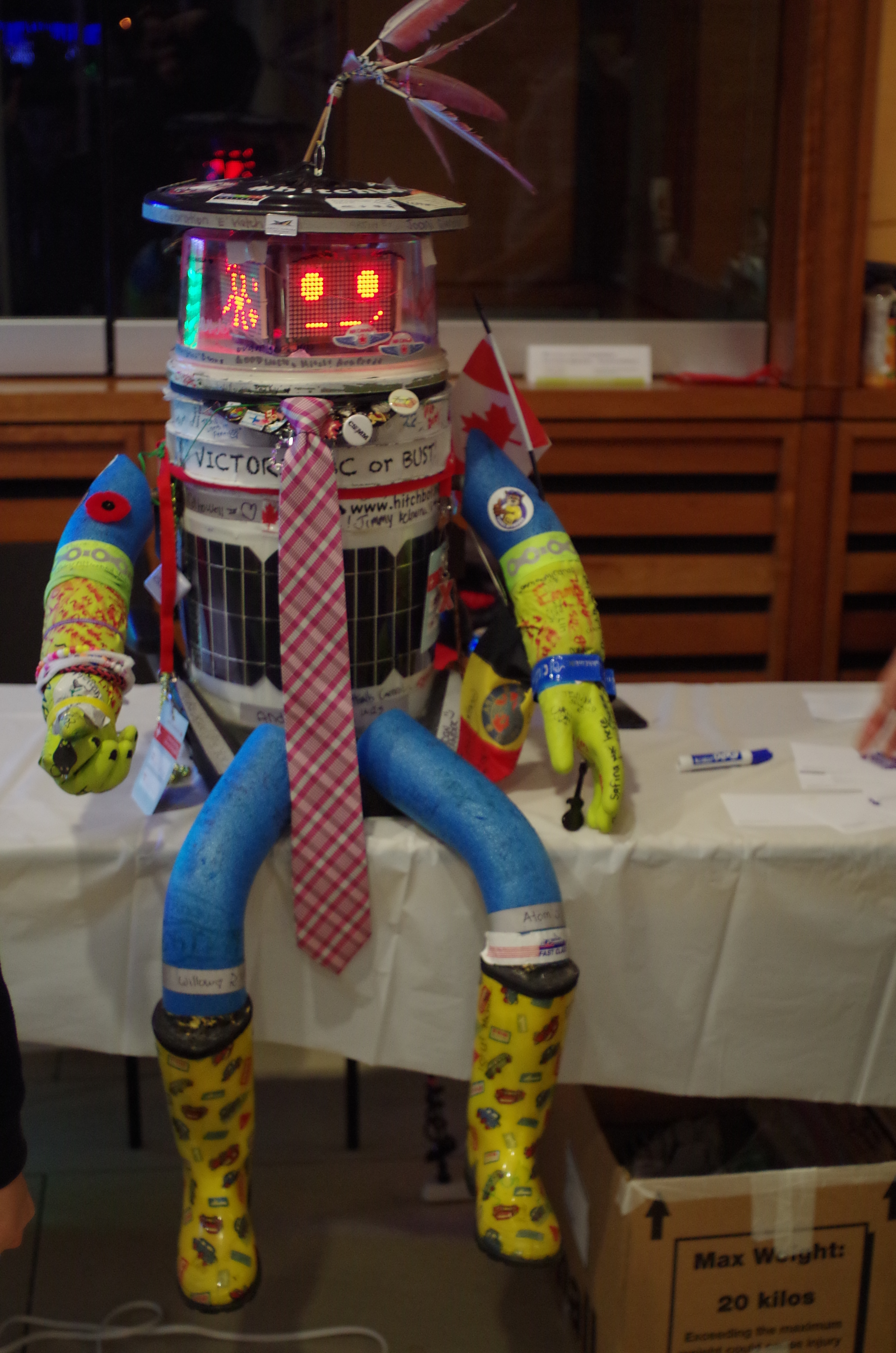 hitchBOT at an exhibition in Toronto